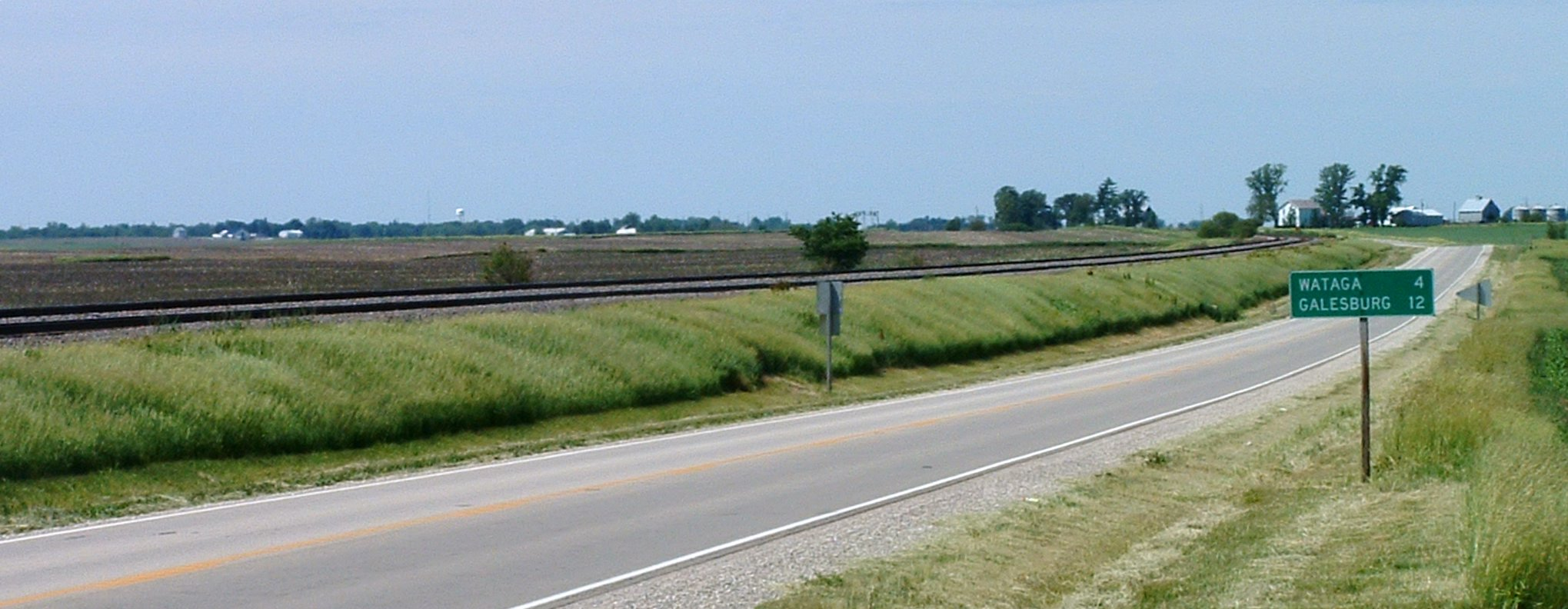 U.S. Highway 34 in west-central Illinois, west of Oneida, Illinois. Photograph taken June 4, 2006 by Kelly Martin.